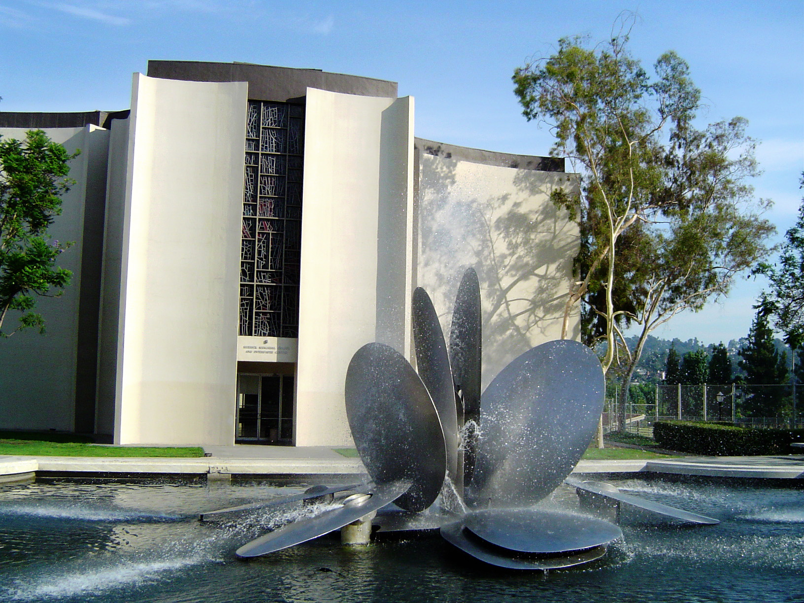 Photographed and uploaded by user:Geographer. Herrick Memorial Chapel built 1964 and fountain built 1979, Occidental College, on July 15, 2005.